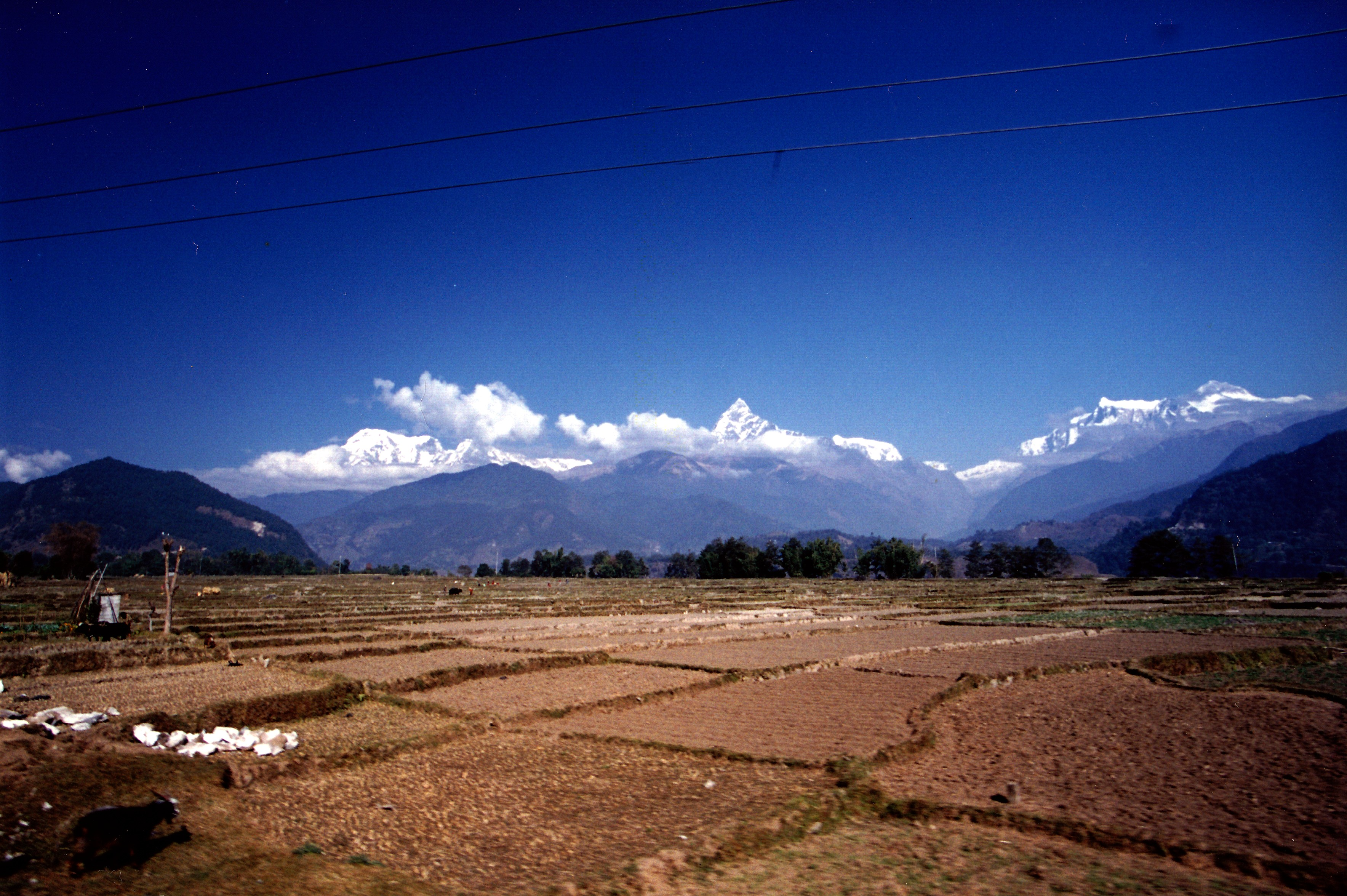 Annapurna Himal,Nepal, seen from Pokhara Valley near Phedi. Left to Right: Annapurna I, Machapuchare (pyramid-shape), Annapurna IV.